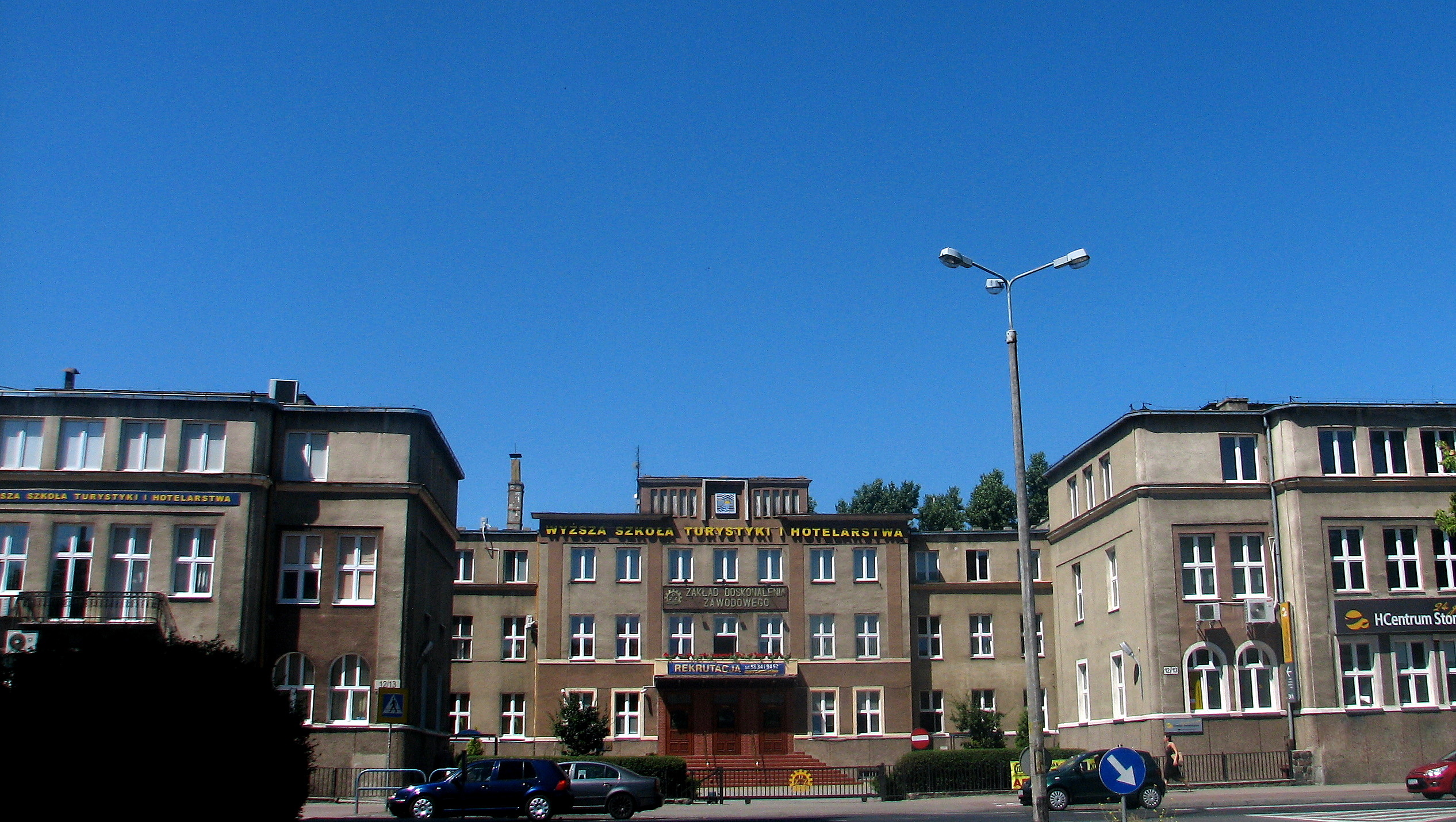 Academy of Tourism and Hotel Management in Gdańsk.